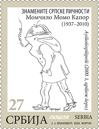 Momčilo Momo Kapor, Author and Illustrator